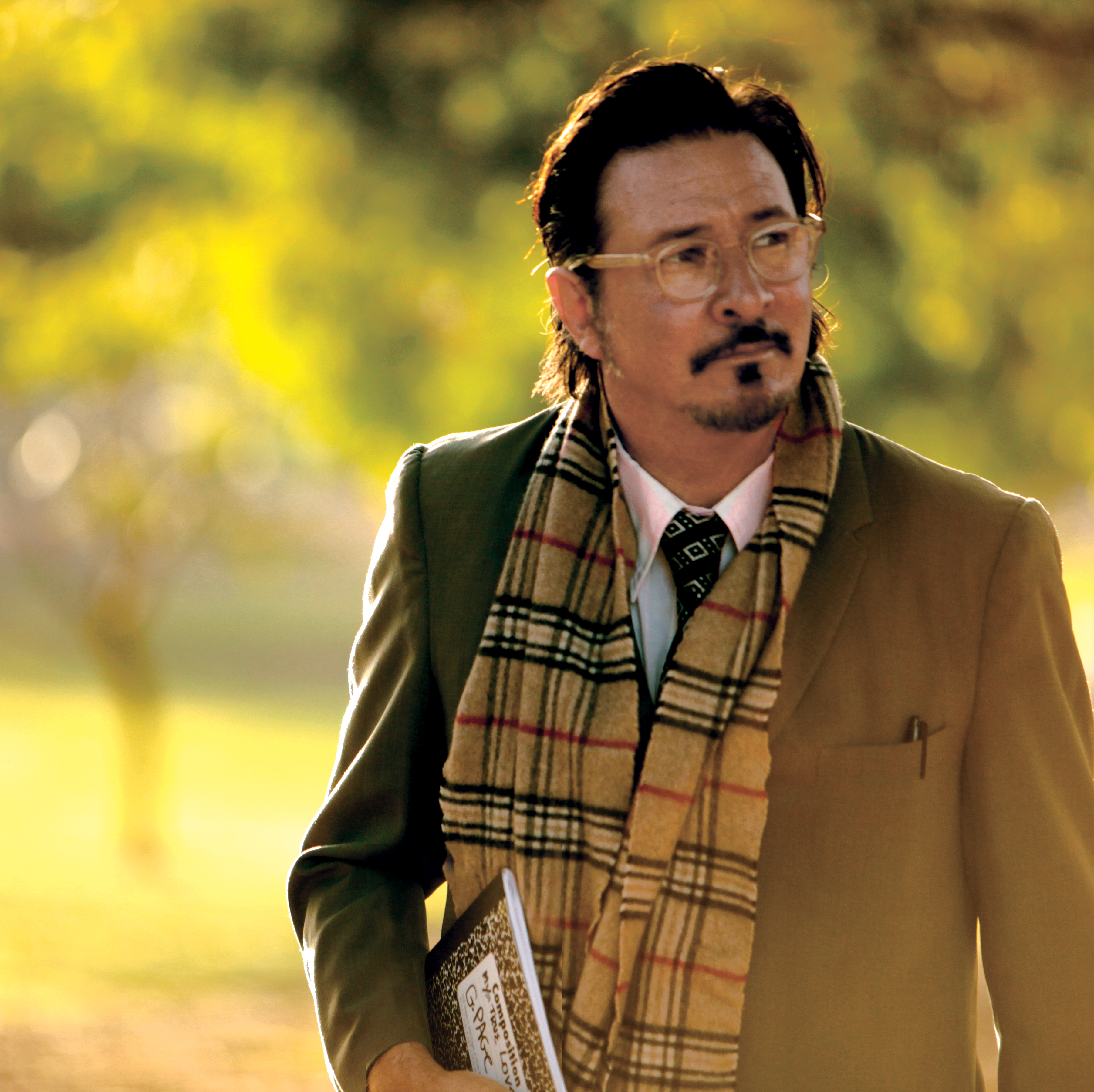 Photo of Gregory Page (Crooner / Songwriter / Music Publisher)